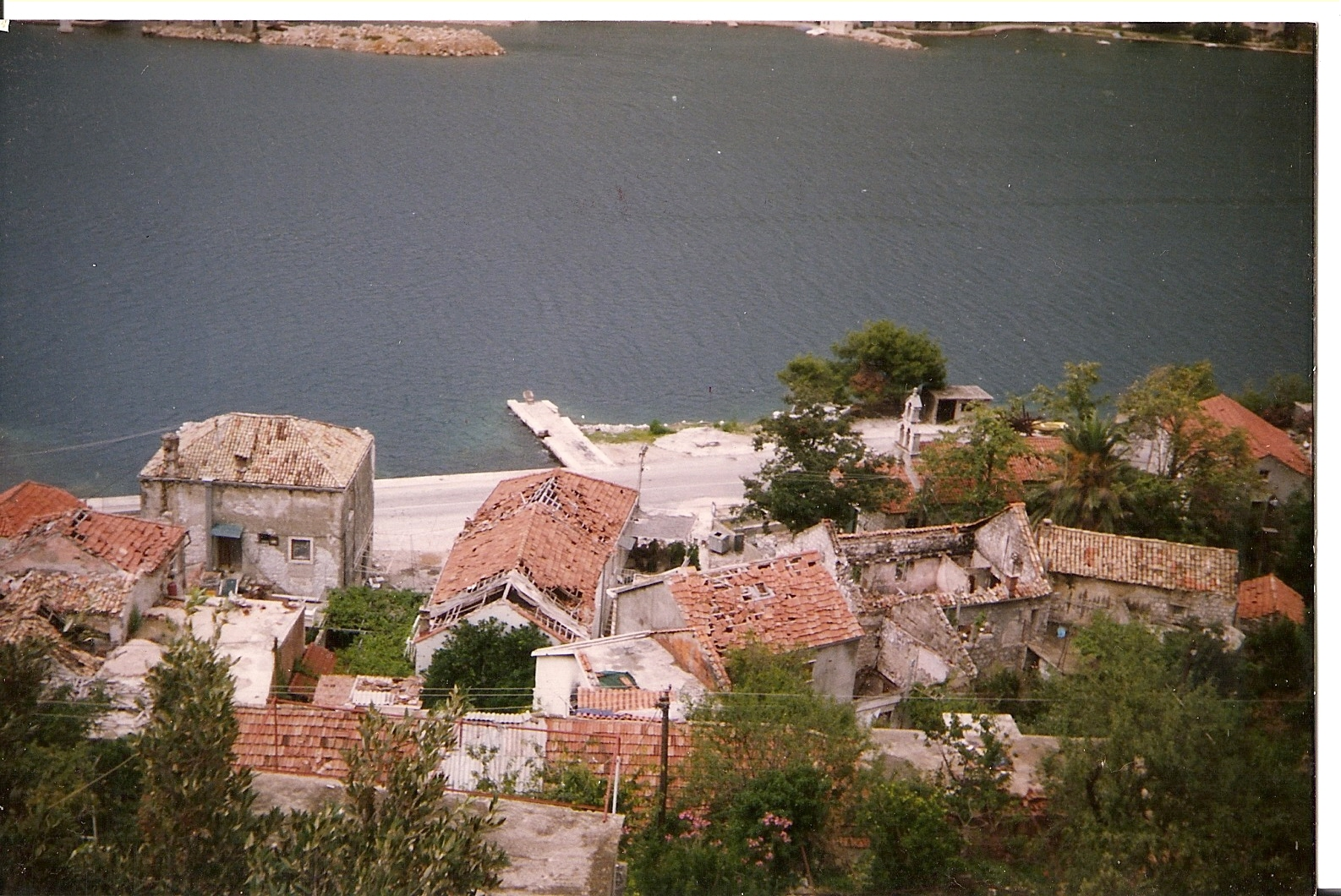 Damaged roofs in Sustjepan, village near Dubrovnik